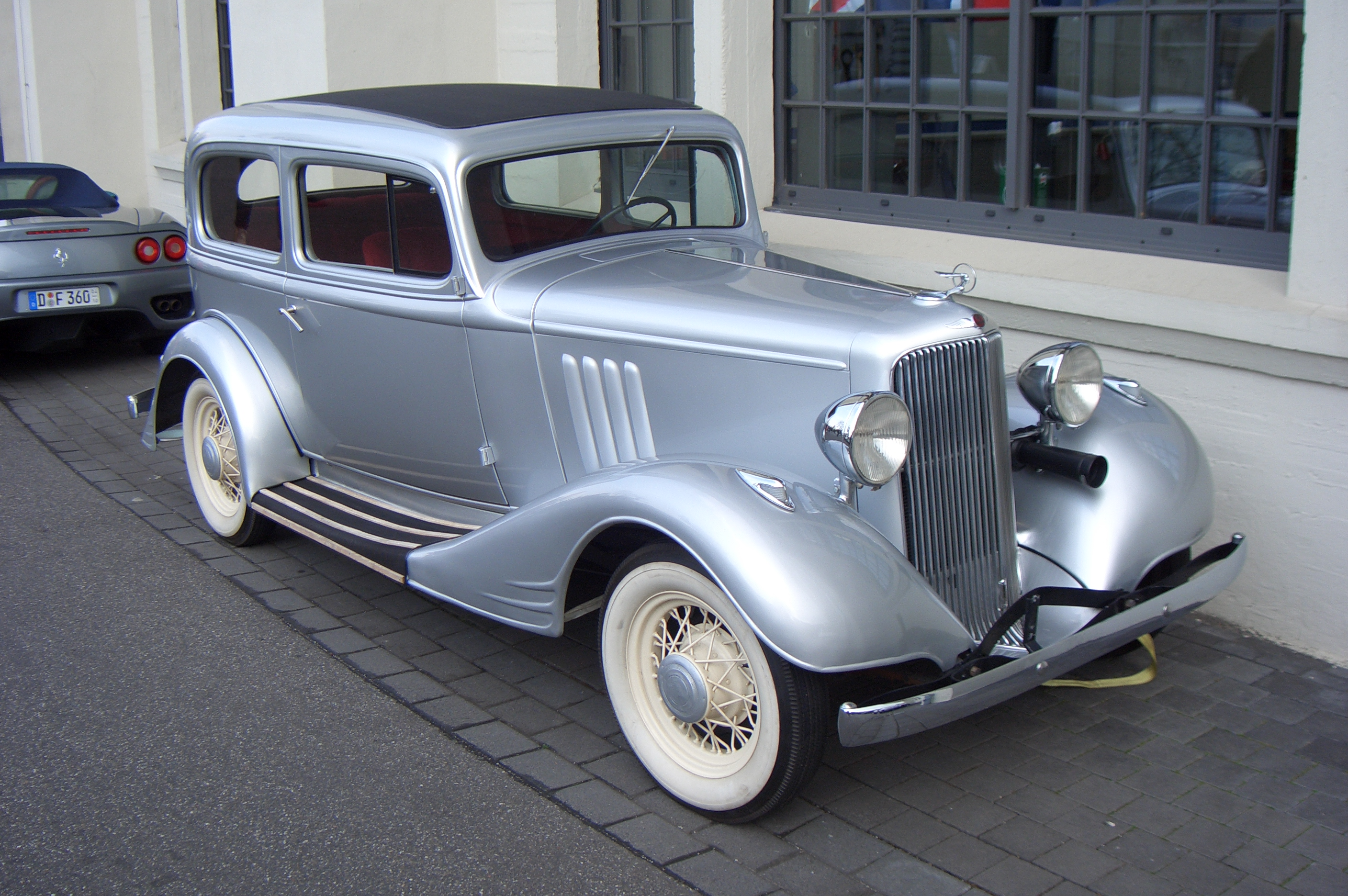 Pontiac Economy Eight 2-door Sedan (Series 601), 1933